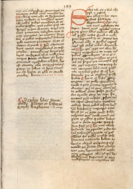 The Courtenay Compendium is a late 14th-century English decorated manuscript on vellum, containing significant texts of British, Near-Eastern and Far-Eastern historical accounts, including the Encomium of Queen Emma and The Travels of Marco Polo.